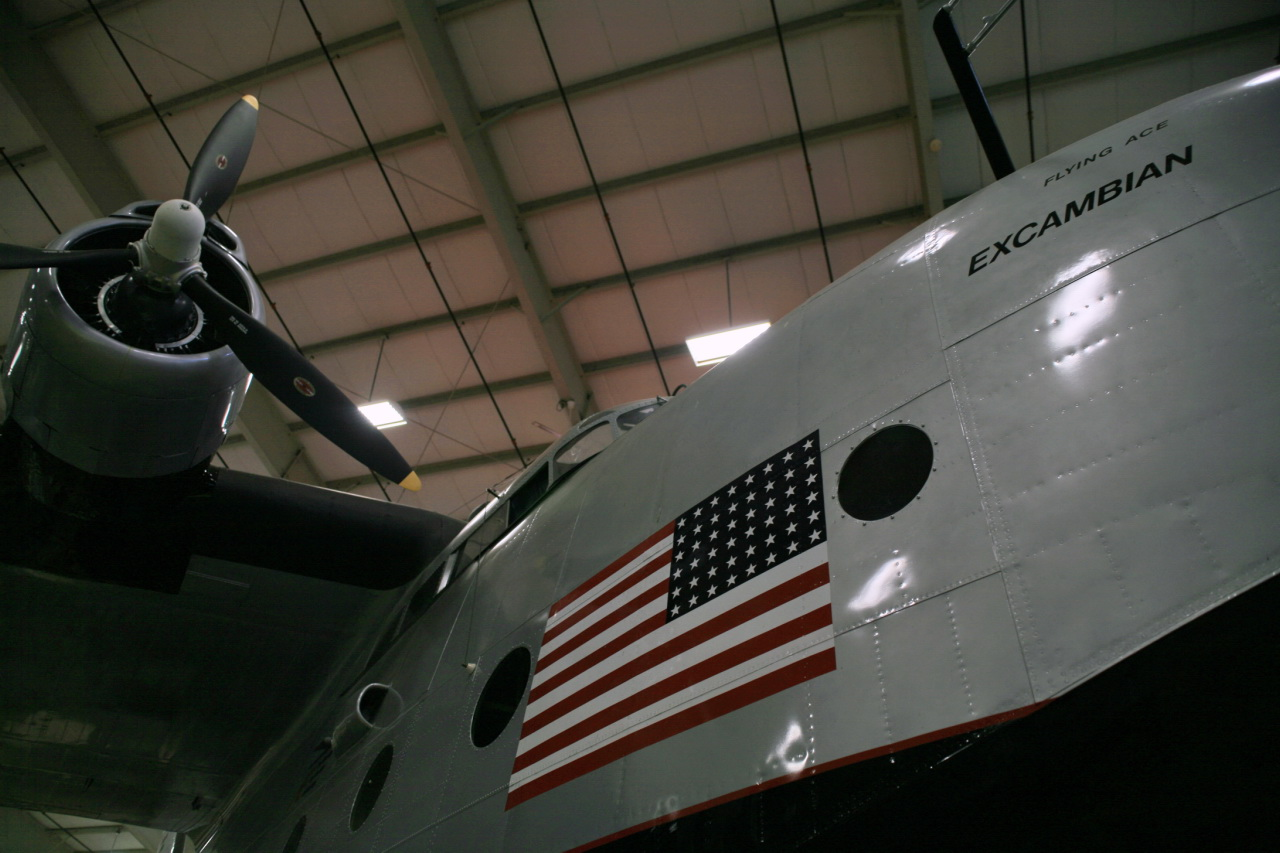 Excambian is the only surviving aircraft of 3 built in 1942 for American Export Airlines for non-stop trans-Atlantic service. Until the end of 1942 they carried priority passengers and freight under contract to the Navy and Army. After the war Excambian flew for several charter airlines until being damaged beyond repair in 1968 when it was retired from service. After some custody changes, the Navy transferred the aircraft to the New England Air Museum on "permanent loan", and in 1983 Excambian (nicknamed "Mother Goose") was barged from the Gulf of Mexico to Bridgeport, CT.